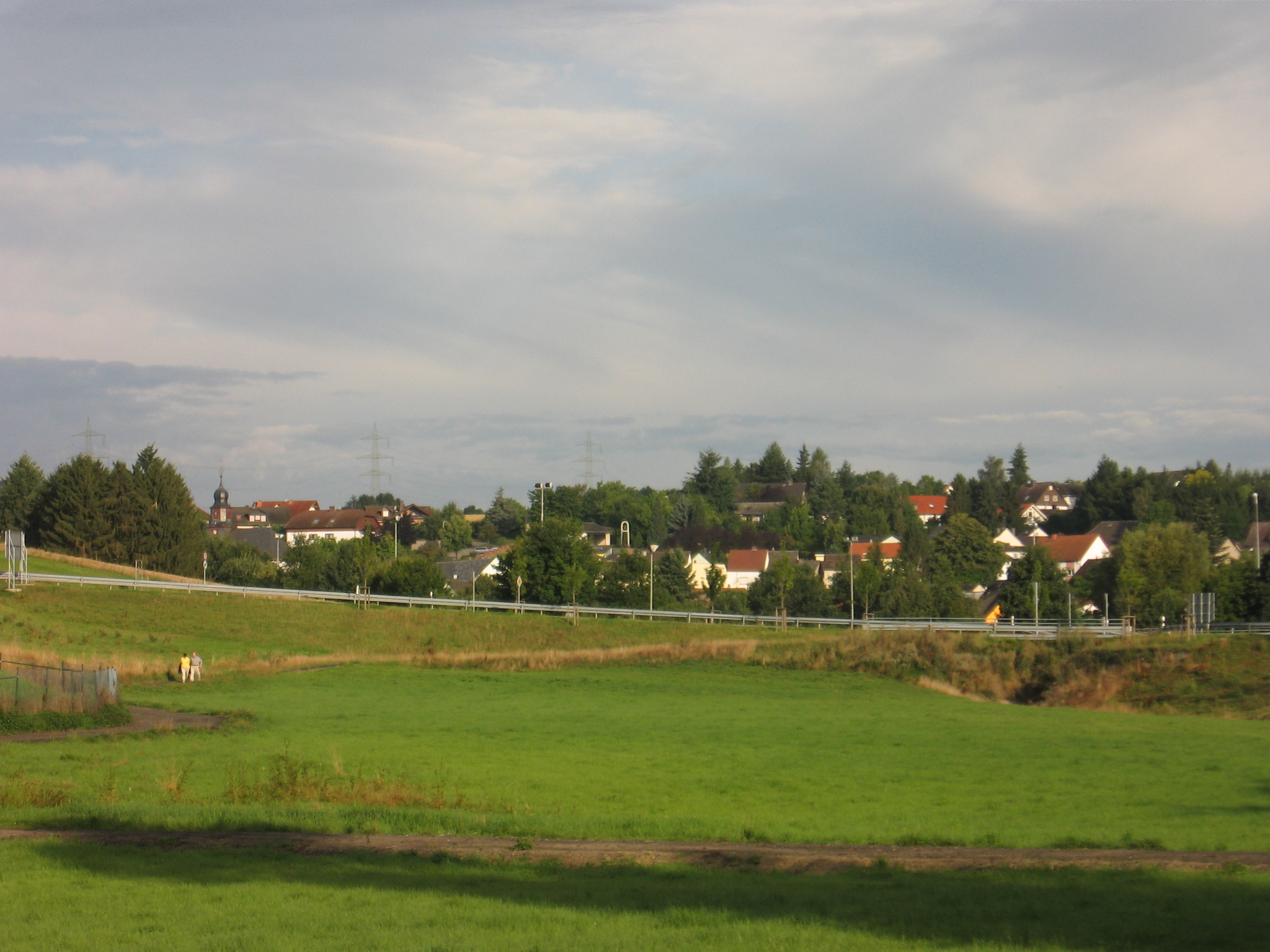 View on Beuerbach (Hünstetten)